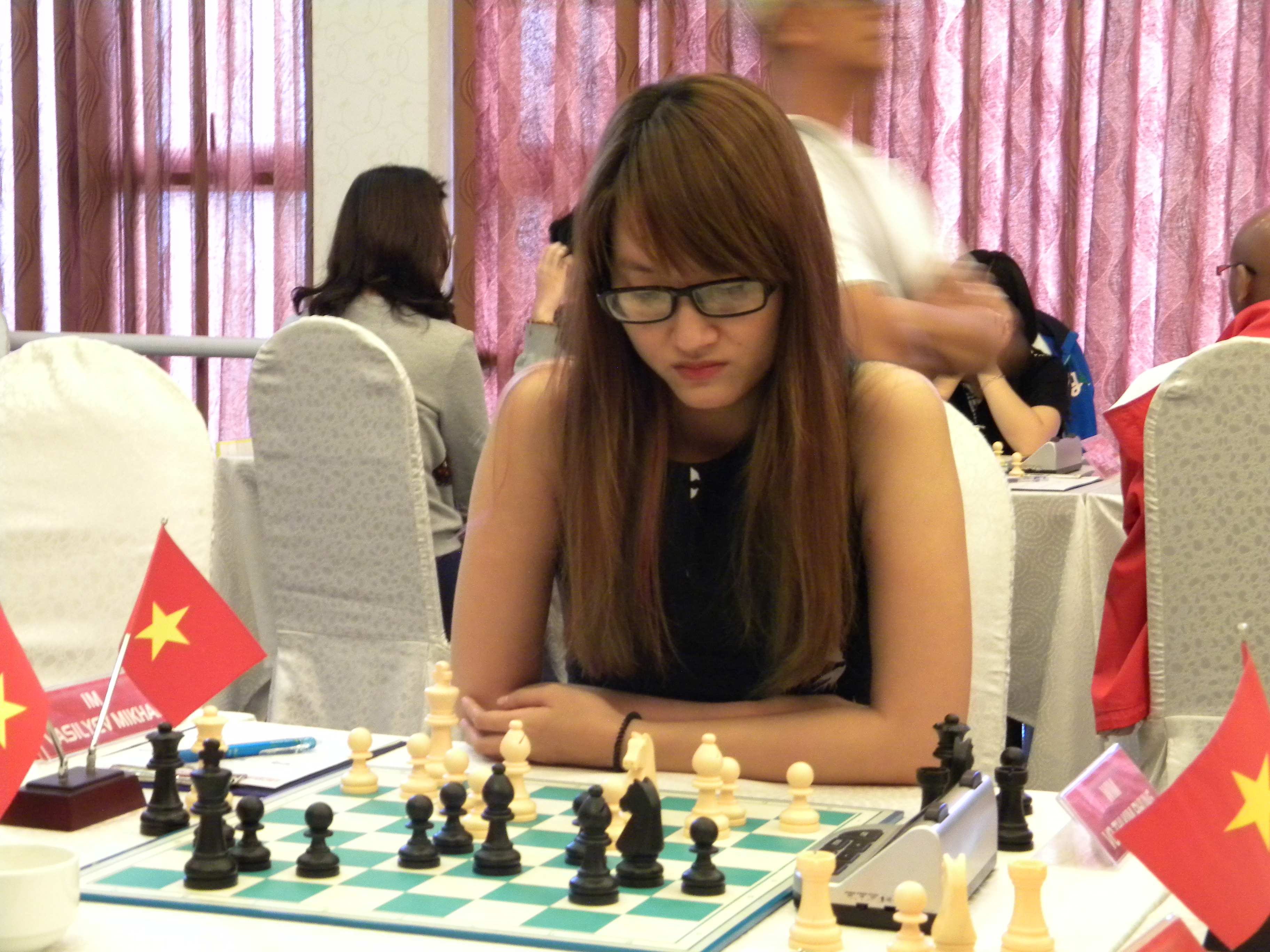 Vo Thi Kim Phung, round 7 HDBank chess tournament 2016